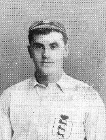 Jack Robinson, England international goalkeeper, c. 1900.